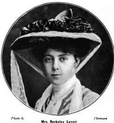 Sibell Bass Levett, wife of Major Berkeley Levett of the Scots Guard, daughter of Hamar Bass of Bass Breweries, niece of Michael Bass, Lord Burton. Photograph by Thompson from 'The Bystander,' issue of Sept. 20, 1905